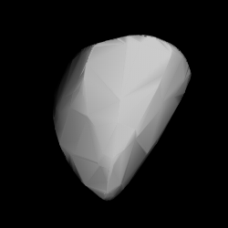 3D convex shape model of 1022 Olympiada, computed using light curve inversion techniques. J. Hanuš, J. Ďurech, M. Brož, B. D. Warner (June 2011). "A study of asteroid pole-latitude distribution based on an extended set of shape models derived by the lightcurve inversion method". Astronomy and Astrophysics 530: A134. ISSN 0004-6361. arXiv